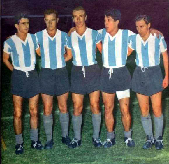 Colorized photo of the Carasucias, Argentina team that won the Sudamericano. Fltr: Omar Corbatta, Humberto Maschio, Antonio Angelillo, Omar Sívori, Osvaldo Cruz.